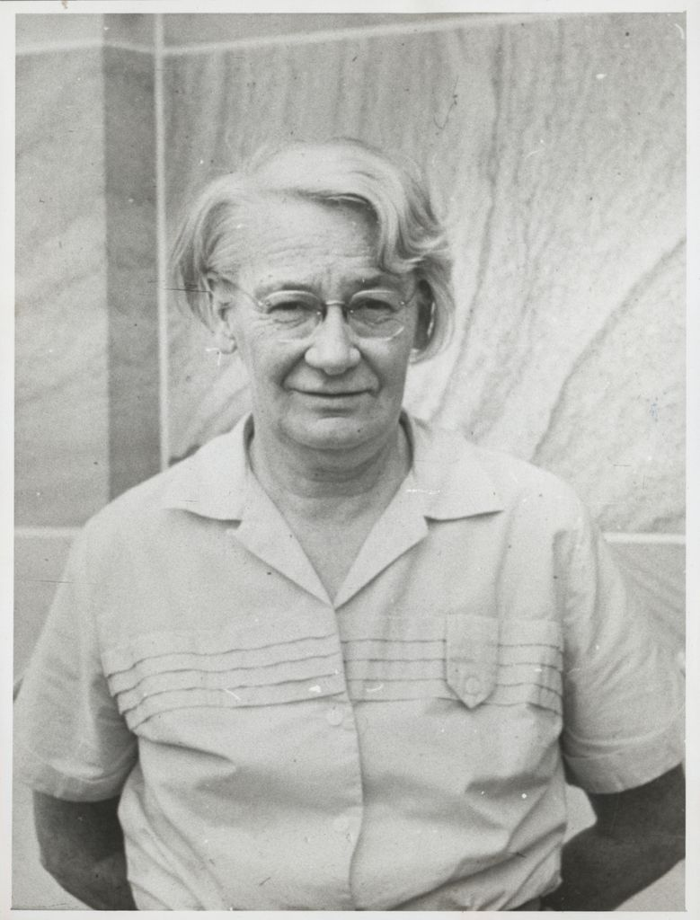 Dorothy Hill, standing in front of a wall at the University of Queensland